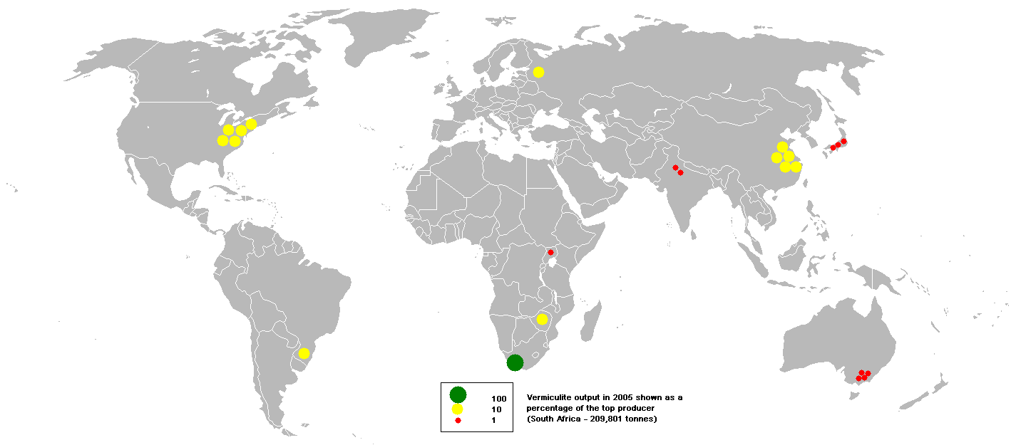 This bubble map shows the global distribution of vermiculite output in 2005 as a percentage of the top producer (South Africa - 209,801 tonnes). This map is consistent with incomplete set of data too as long as the top producer is known. It resolves the accessibility issues faced by colour-coded maps that may not be properly rendered in old computer screens. Data was extracted on 31st May 2007. Source - Based on :Image:BlankMap-World.png